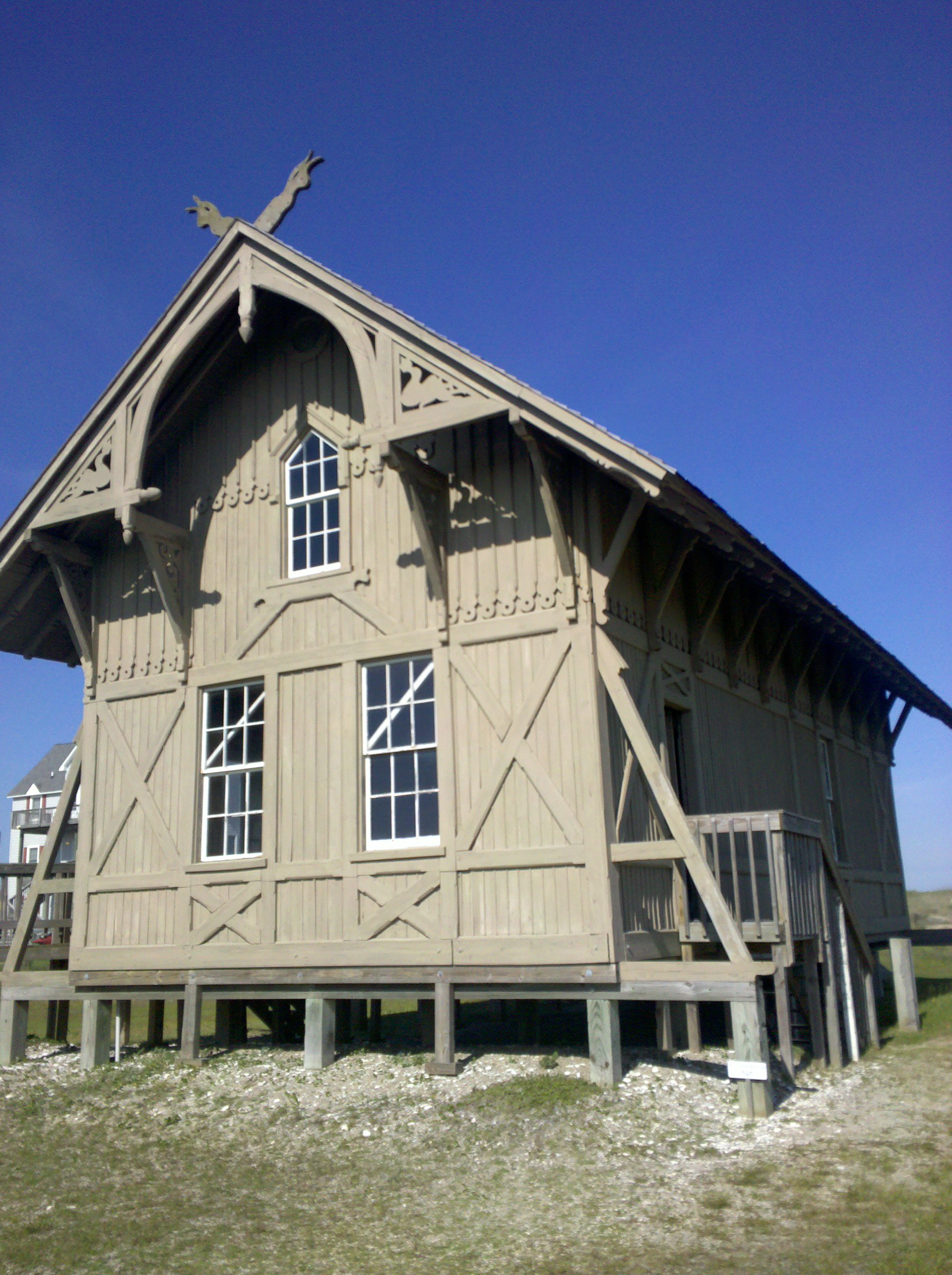 Chicacomonico Life Saving Station (older 1874-type boathouse)